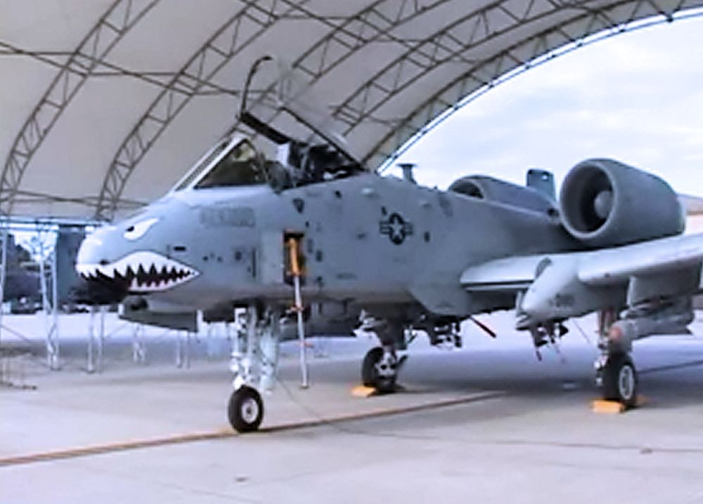 Reservists build associate fighter group at Moody by Master Sgt. Bill Huntington 442nd Fighter Wing Public Affairs 476th Fighter Group (AFRC) video clip released (Video snapshot still)